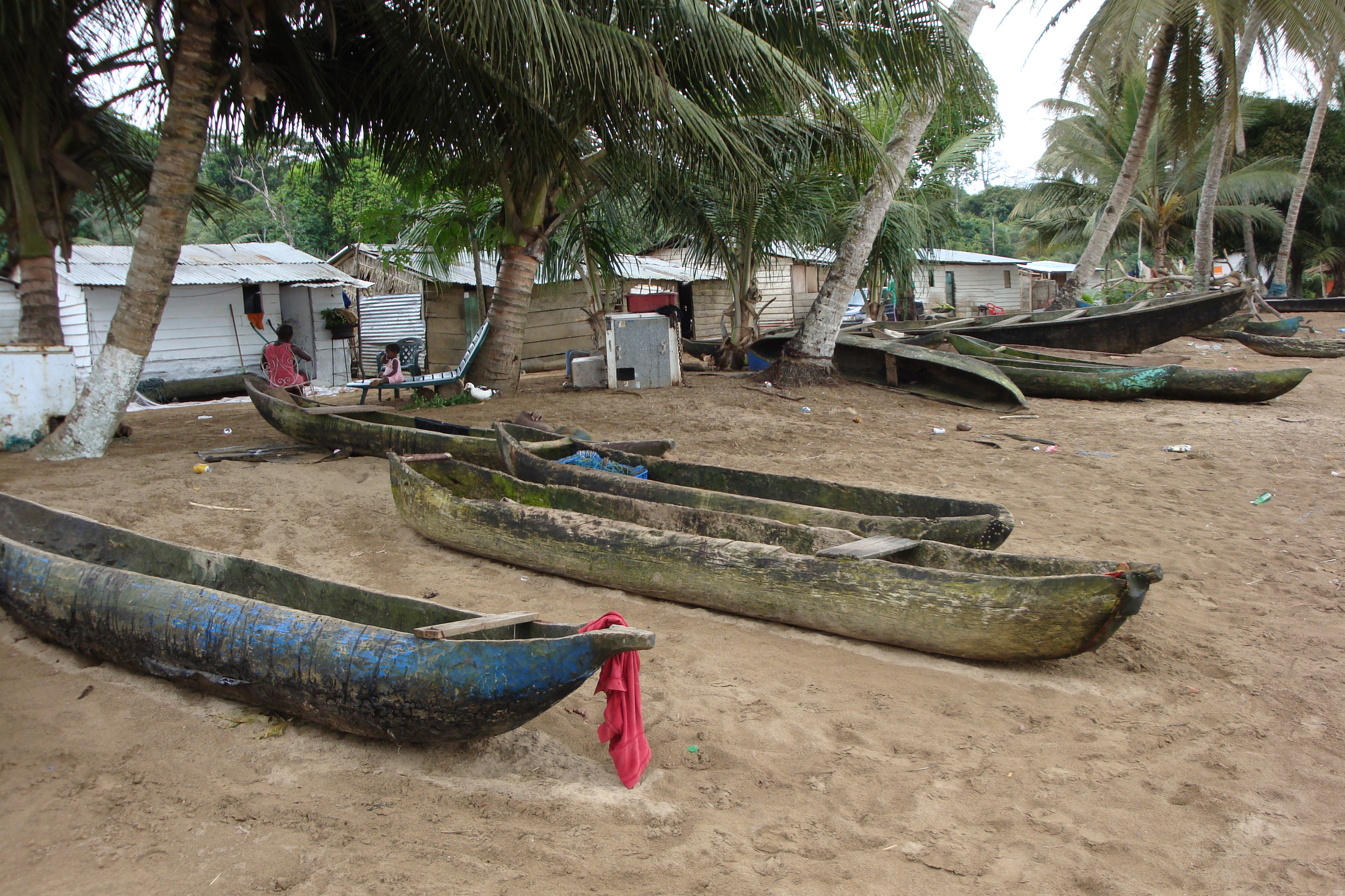 This is an image with the theme "Africa on the Move or Transport" from: Equatorial Guinea